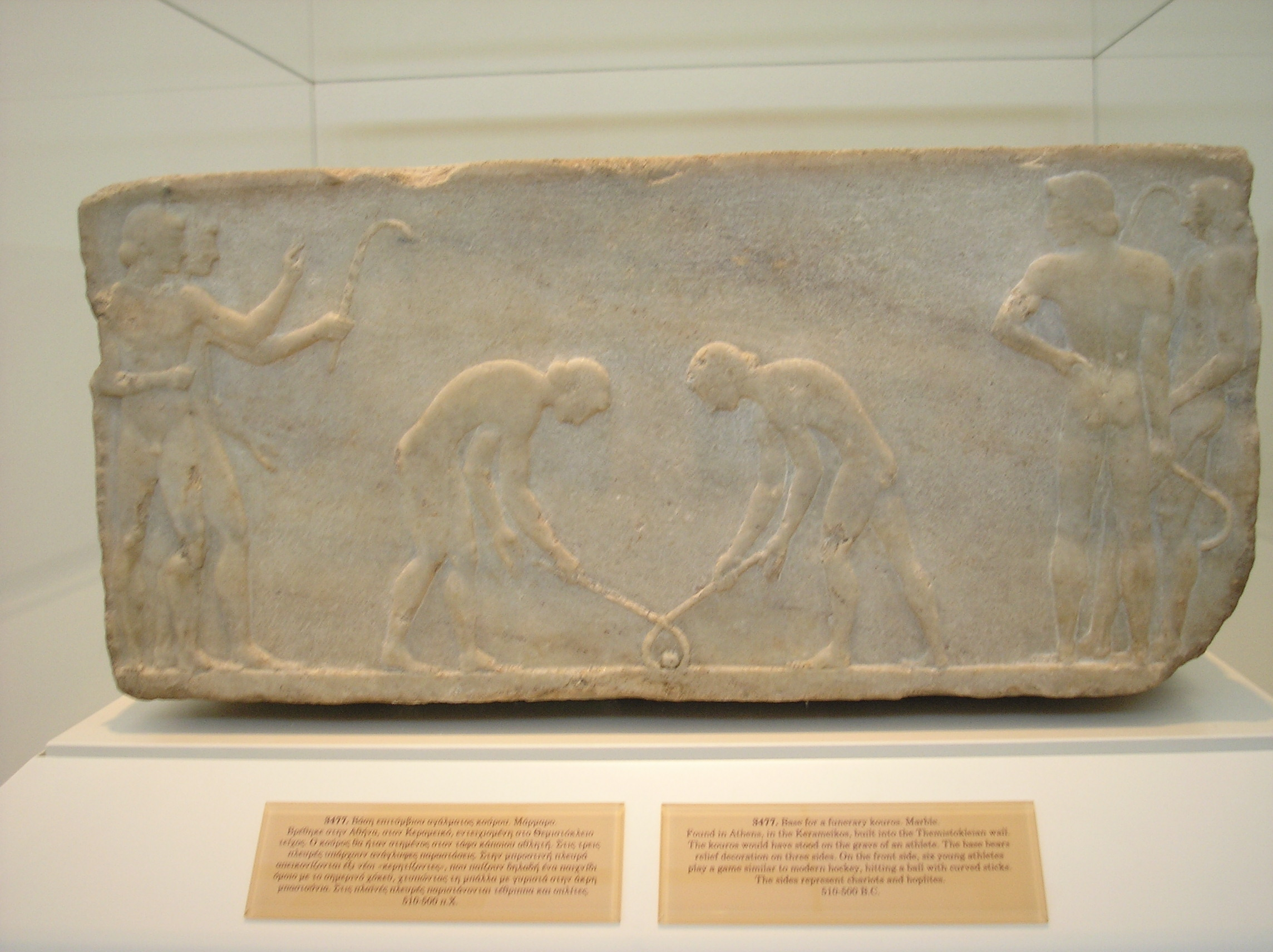 Base of a funerary kouros, found in Kerameikos, built into Themistokleian wall. Decorated with reliefs: chariots, hoplites and hockey players.front view